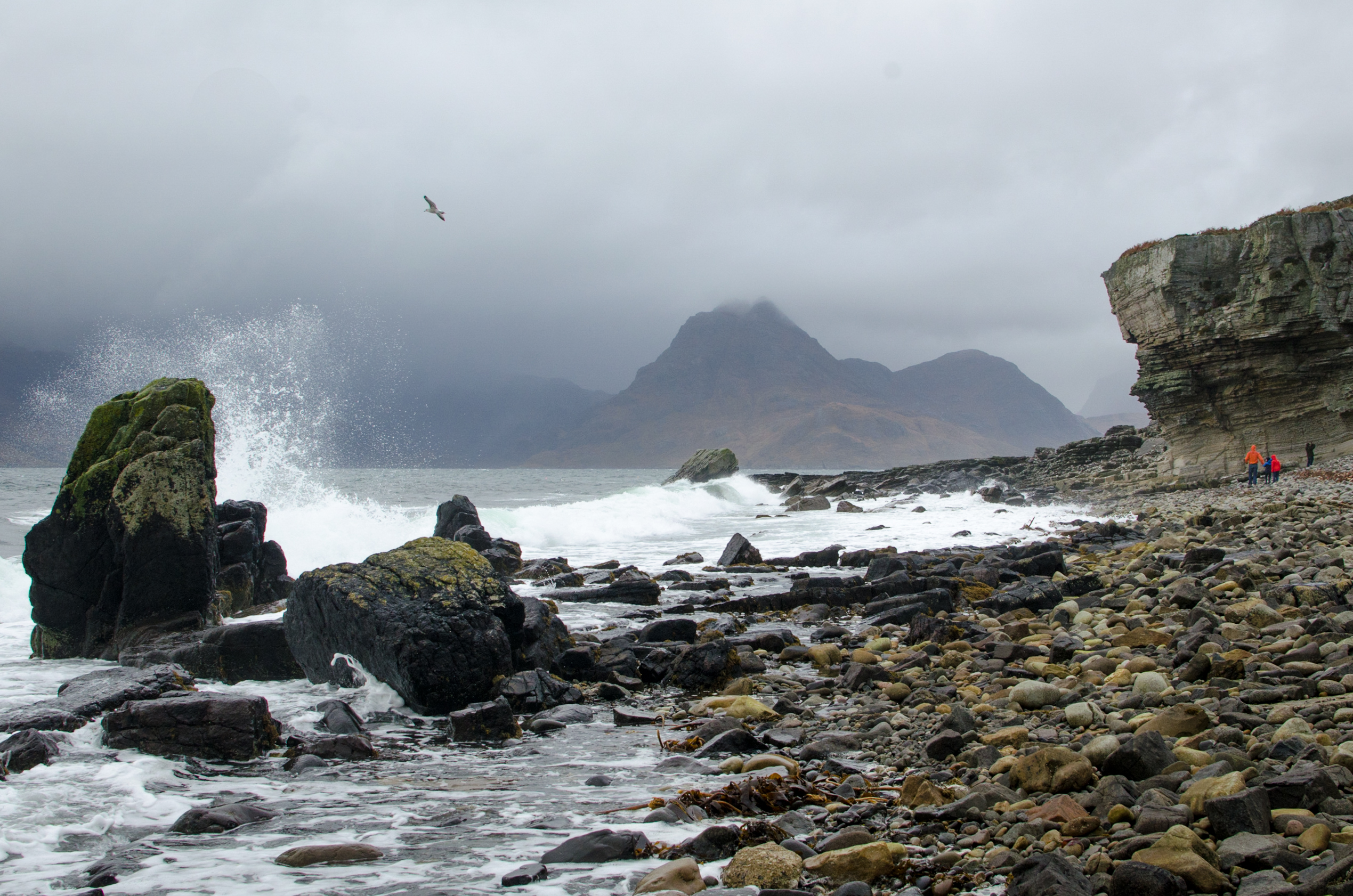 Hurricane Gonzalo brought some photo opportunities with him.